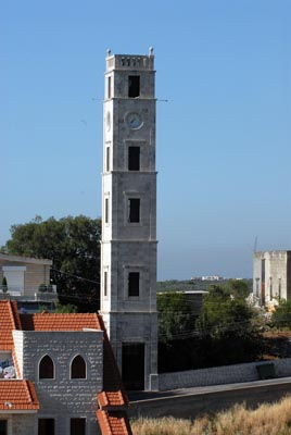 own work own work